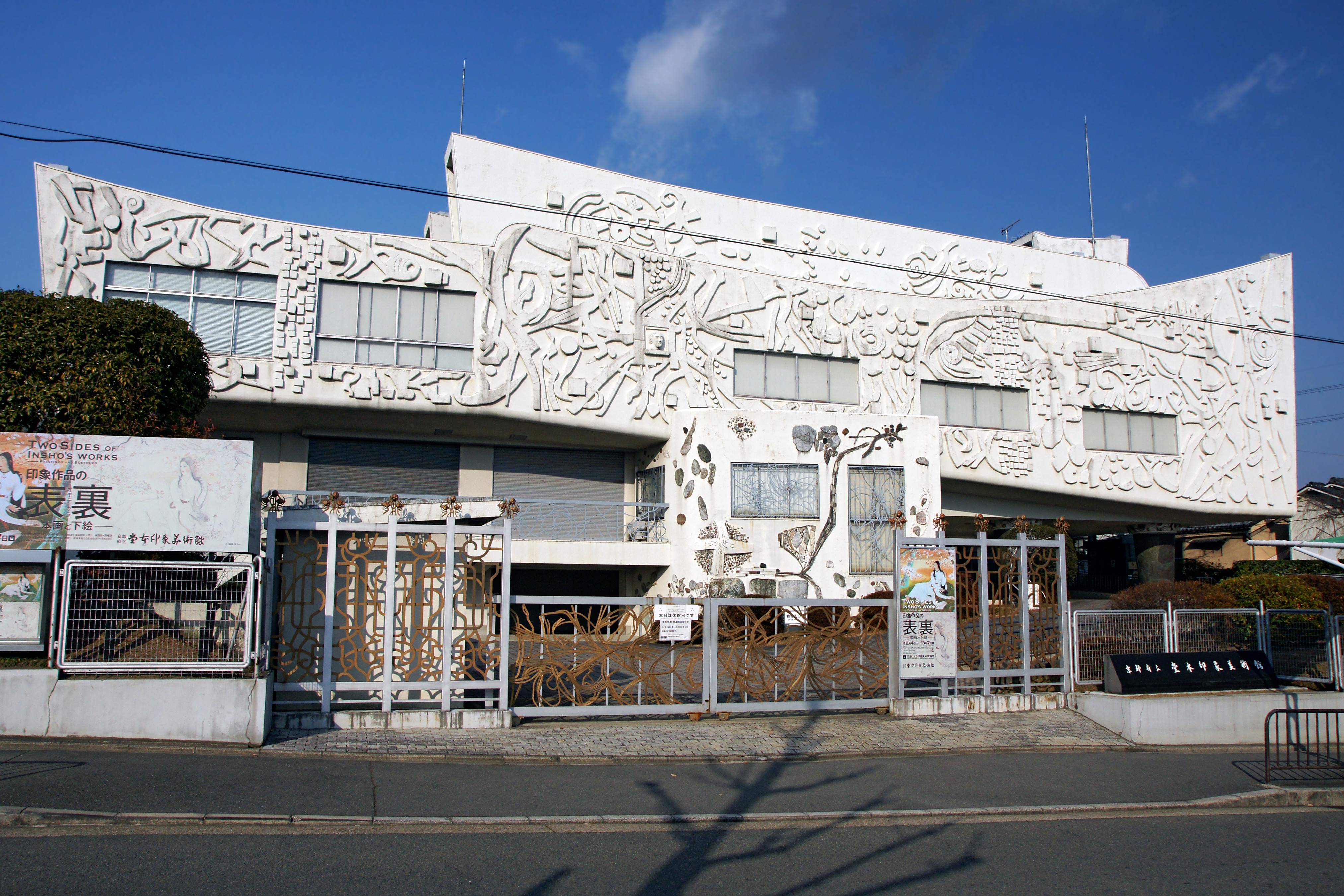 Kyoto Prefectural Insho-Domoto Museum of Fine Arts in Kyoto, Kyoto prefecture, Japan.